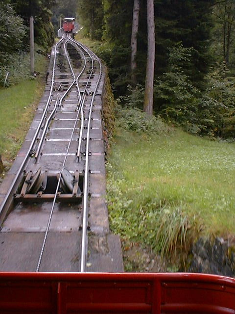 Approaching the passing loop on the Reichenbachfall-Bahn which takes you to the terrible Reichenbachfall. The descending car can be seen in the distance.